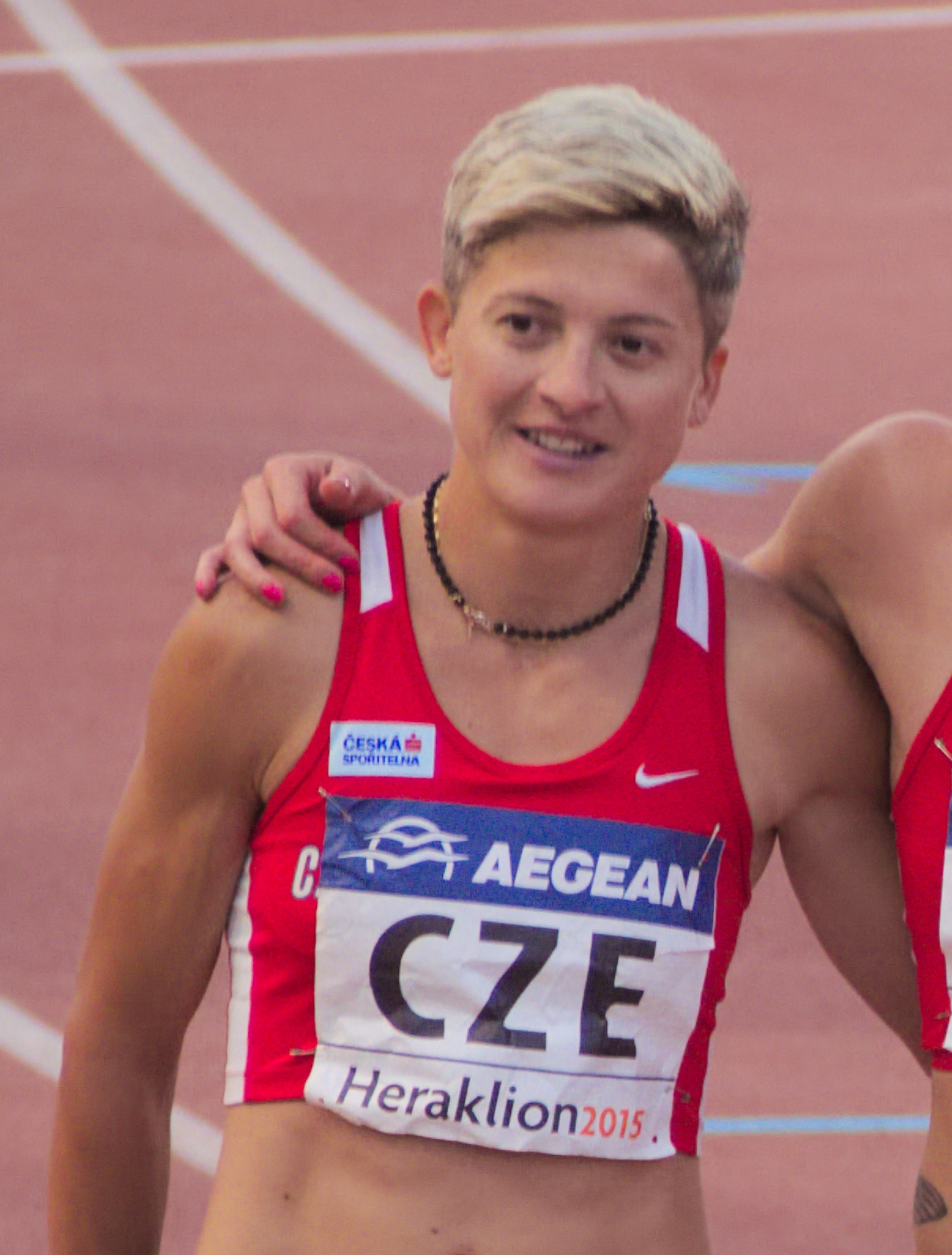 Lenka Masná at the group photo of the Czech team of 4X400 women's relay, at 2015 European Team Championships First League.